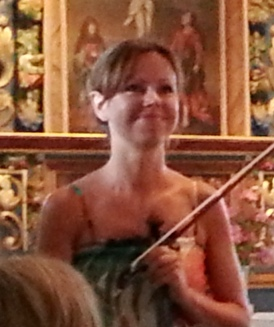 Violinist Sara Trobäck Hesselink in Styrsö Church, August 1st, 2014